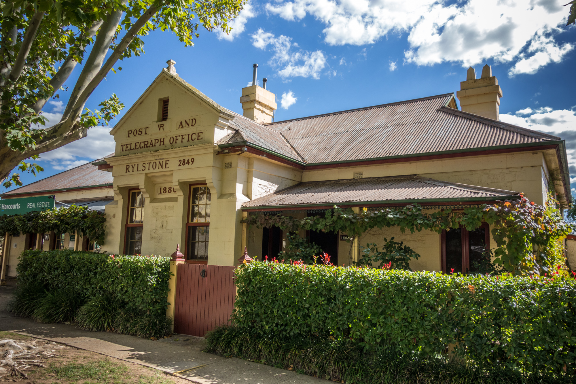 Post and Telegraph Office, 1880, Rylstone, NSW, Australia